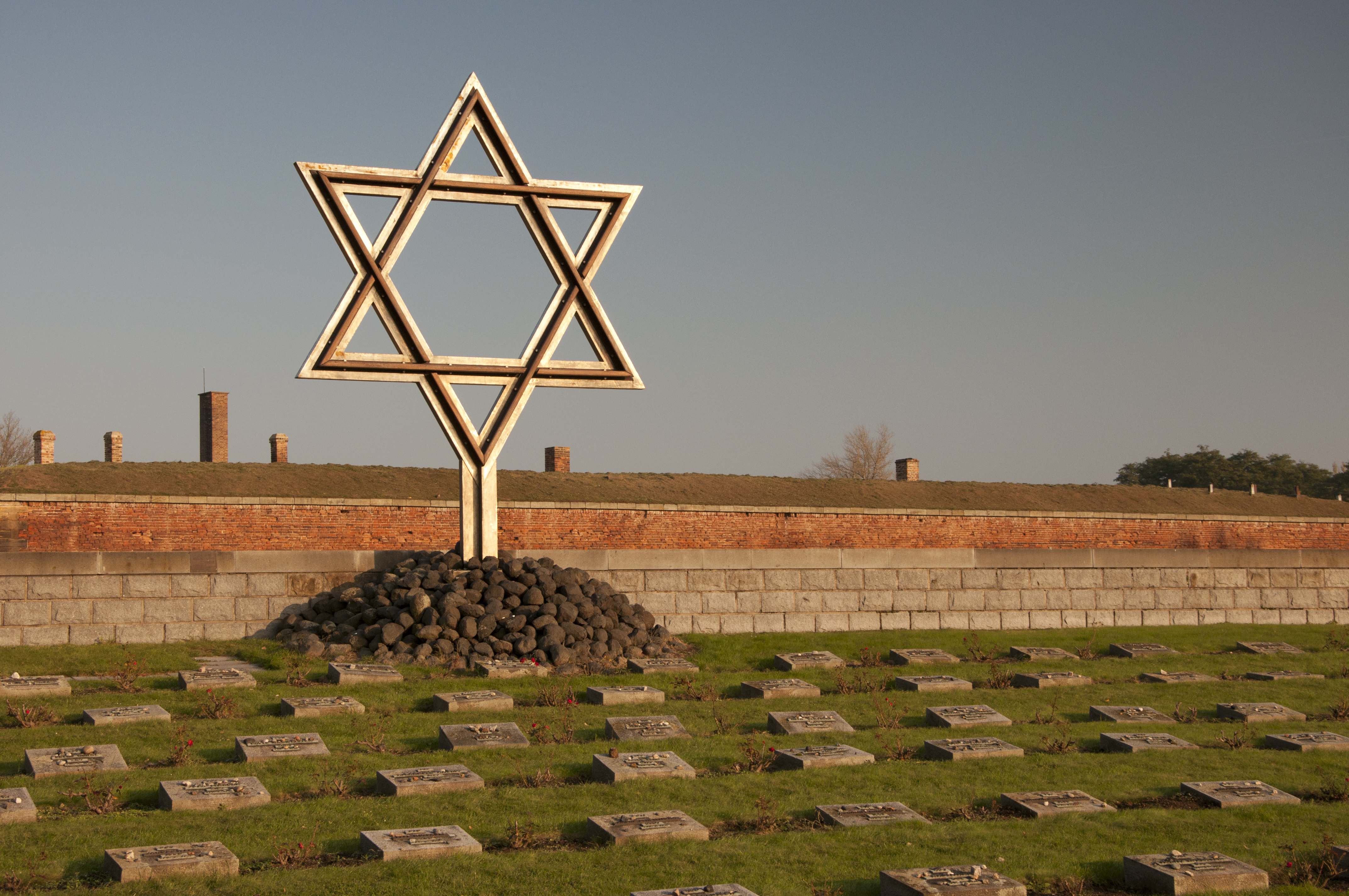 Small Fortress and National Cemetery (Theresienstadt), Czech Republic.